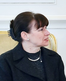 Ilham Aliyev received credentials of incoming Ambassador of Estonia